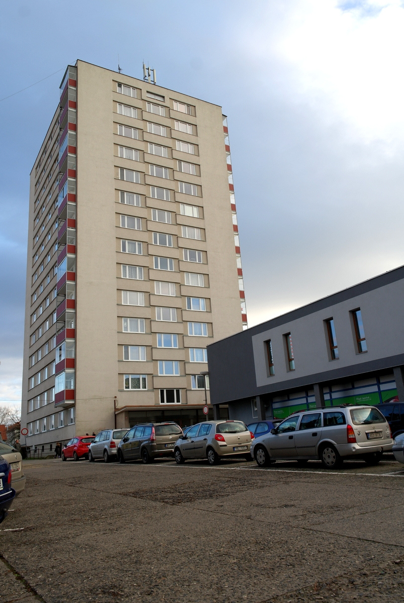 Prefab, 909 28 October str., Neratovice, Mělník District